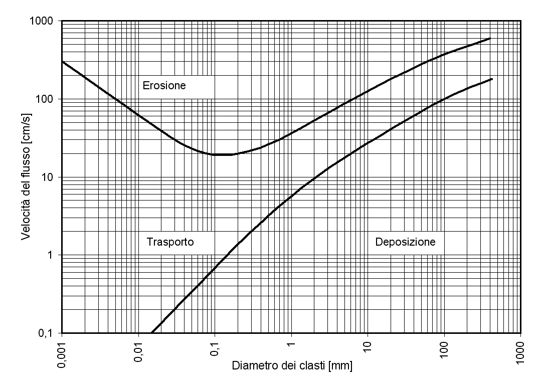 Italian version of the Hjulström curve